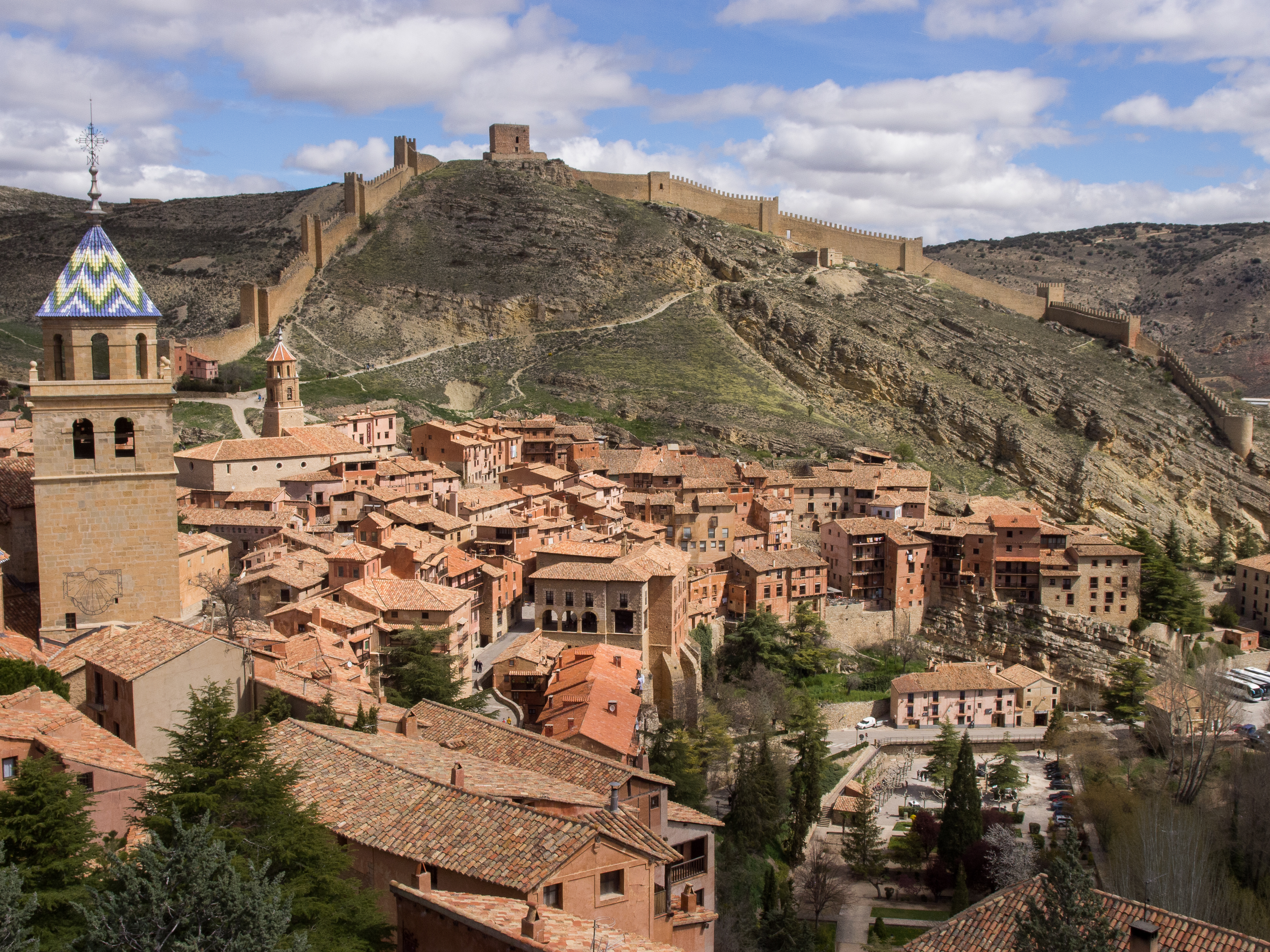 View of the middle age village of Albarracín, located in the autonomous community of Aragón, in the Northeast of Spain. In the picture can you observe the tower of the Alabarracín Cathedral on the left, the village in the middle (population ca. 1000) and the city walls in the background.